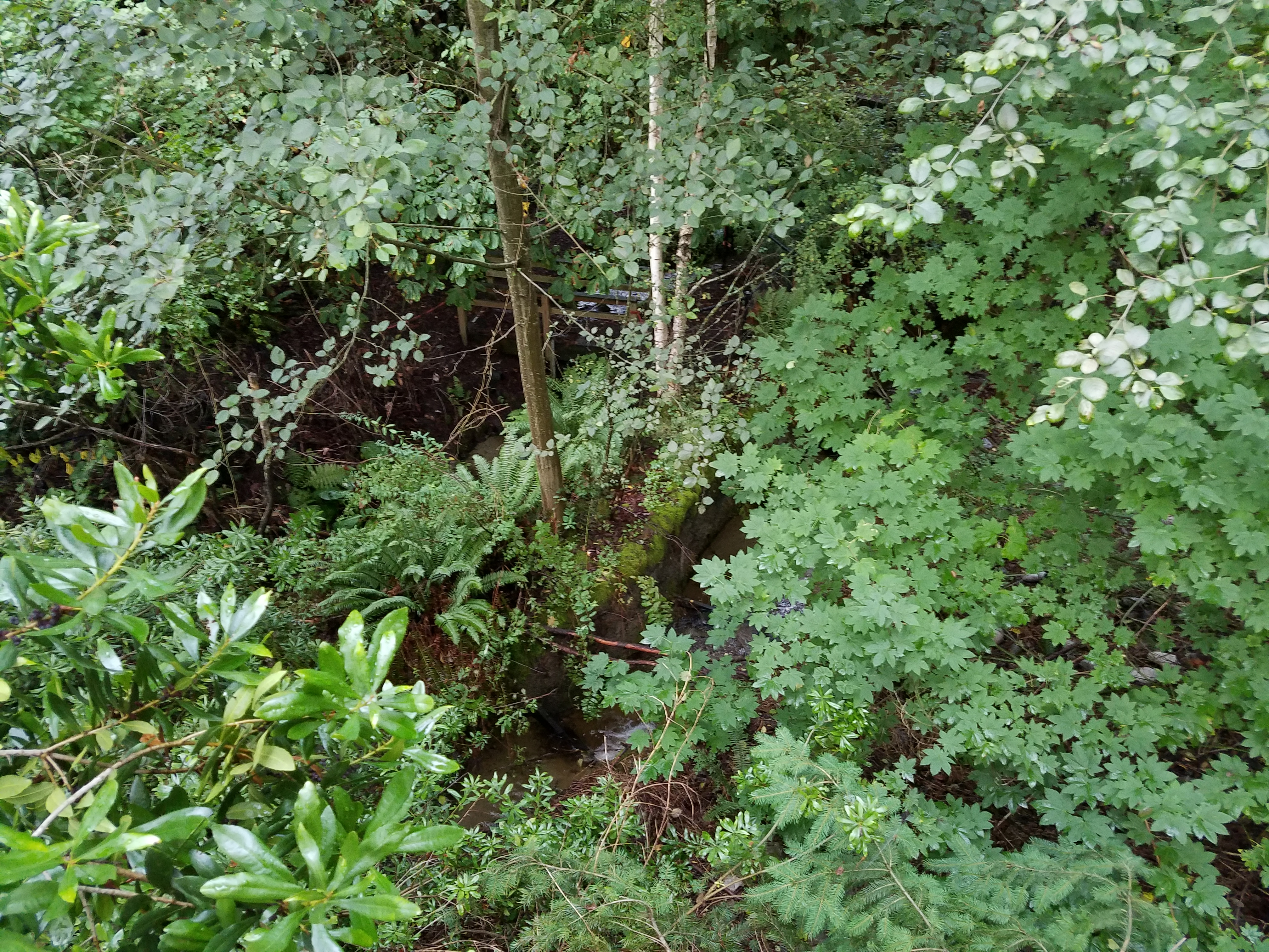 Looking down into the ravine that Fauntleroy Creek passes through in West Seattle, Washington, USA. The creek is barely visible at the bottom of the ravine behind the trees.